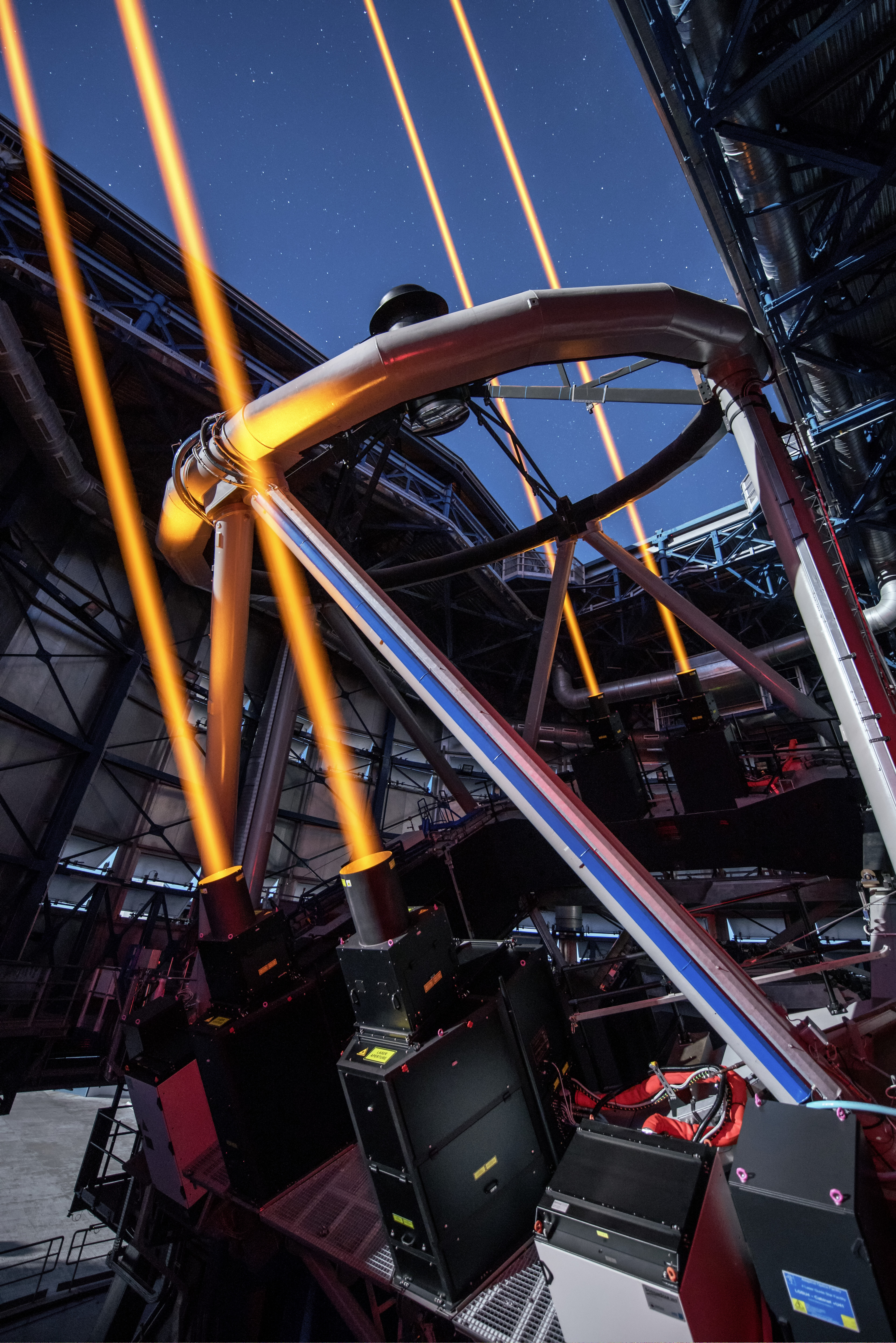 This image shows the four beams emerging from the new laser system on Unit Telescope 4 of the VLT.